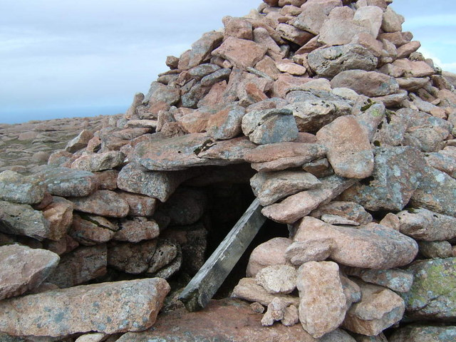 Chambered cairn on the summit of Ronas Hill, the highest mountain in Shetland. 40m S of the top, and at the same altitude is this well-preserved Neolithic burial monument comprising a stone built chamber within a mound of stones.